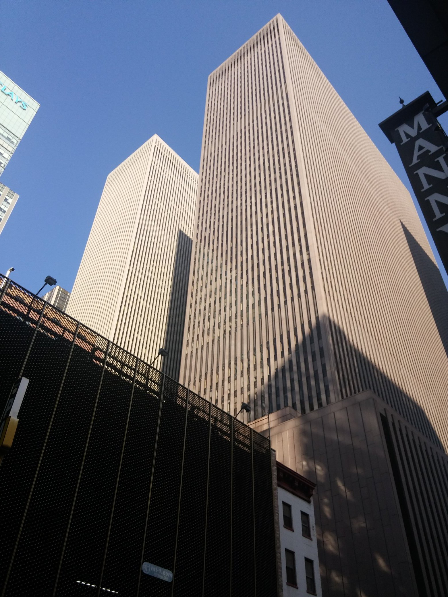 1221 Avenue of the Americas from 48th Street